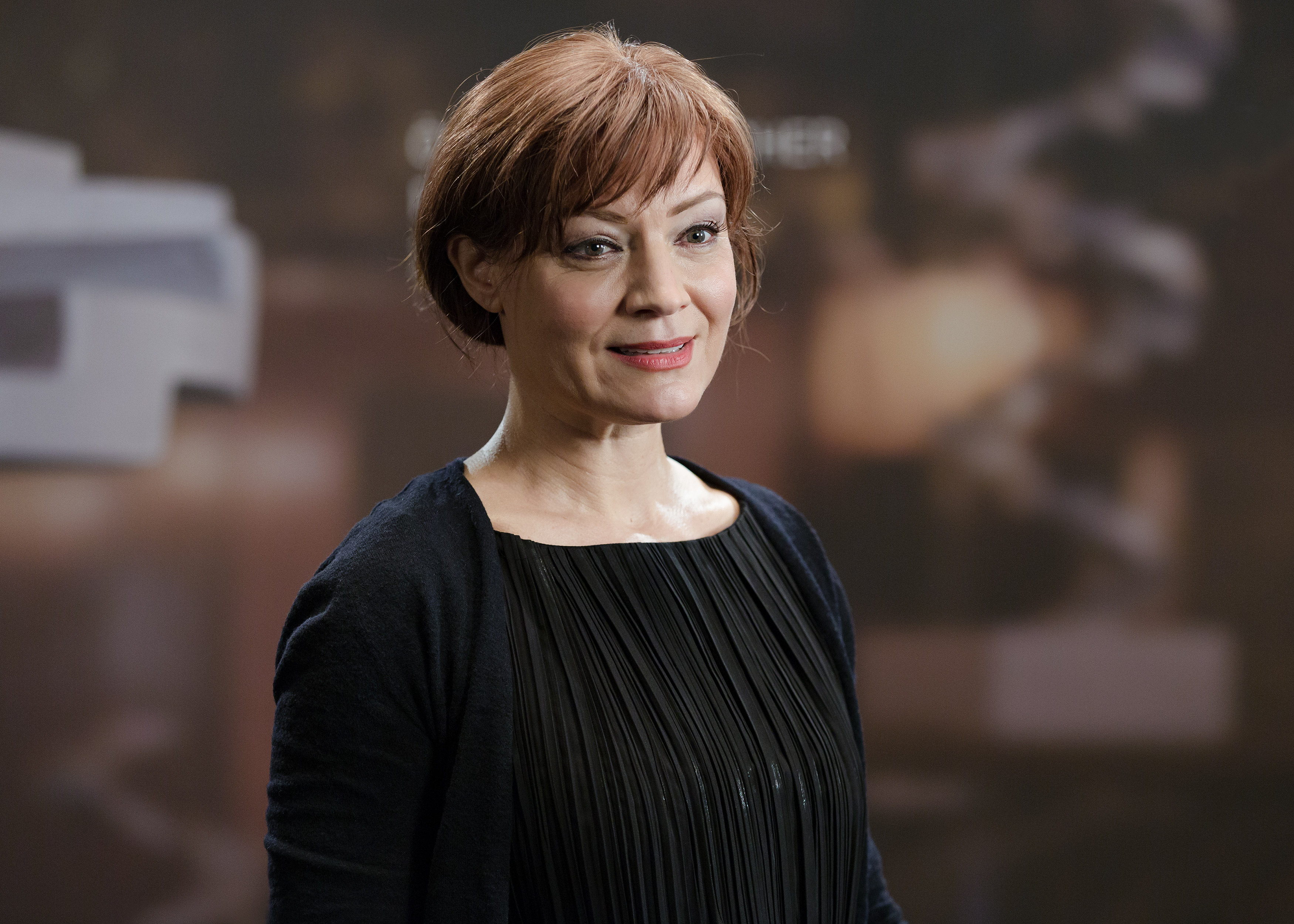 Marion Mitterhammer, actress in Stille Reserven, at the Austrian Film Awards 2017 (Rathaus, Vienna,Austria).